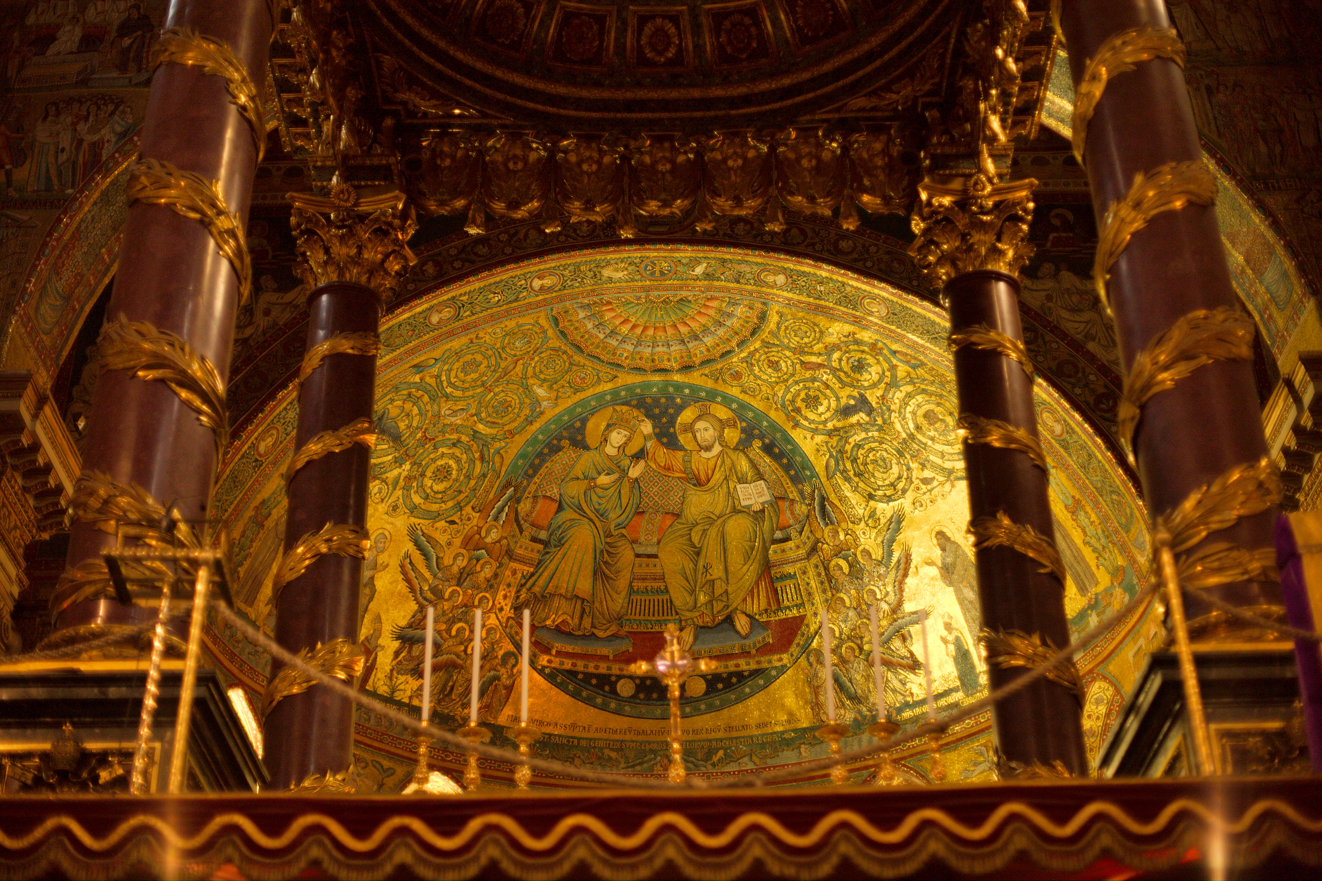 The coronation of the Virgin with angels, saints, Pope Nicolas IV and Cardinal Colonna. Apse mosaic in Basilica di Santa Maria Maggiore, by Jacopo Torriti (1295), with parts from the original mosaic (5th century).